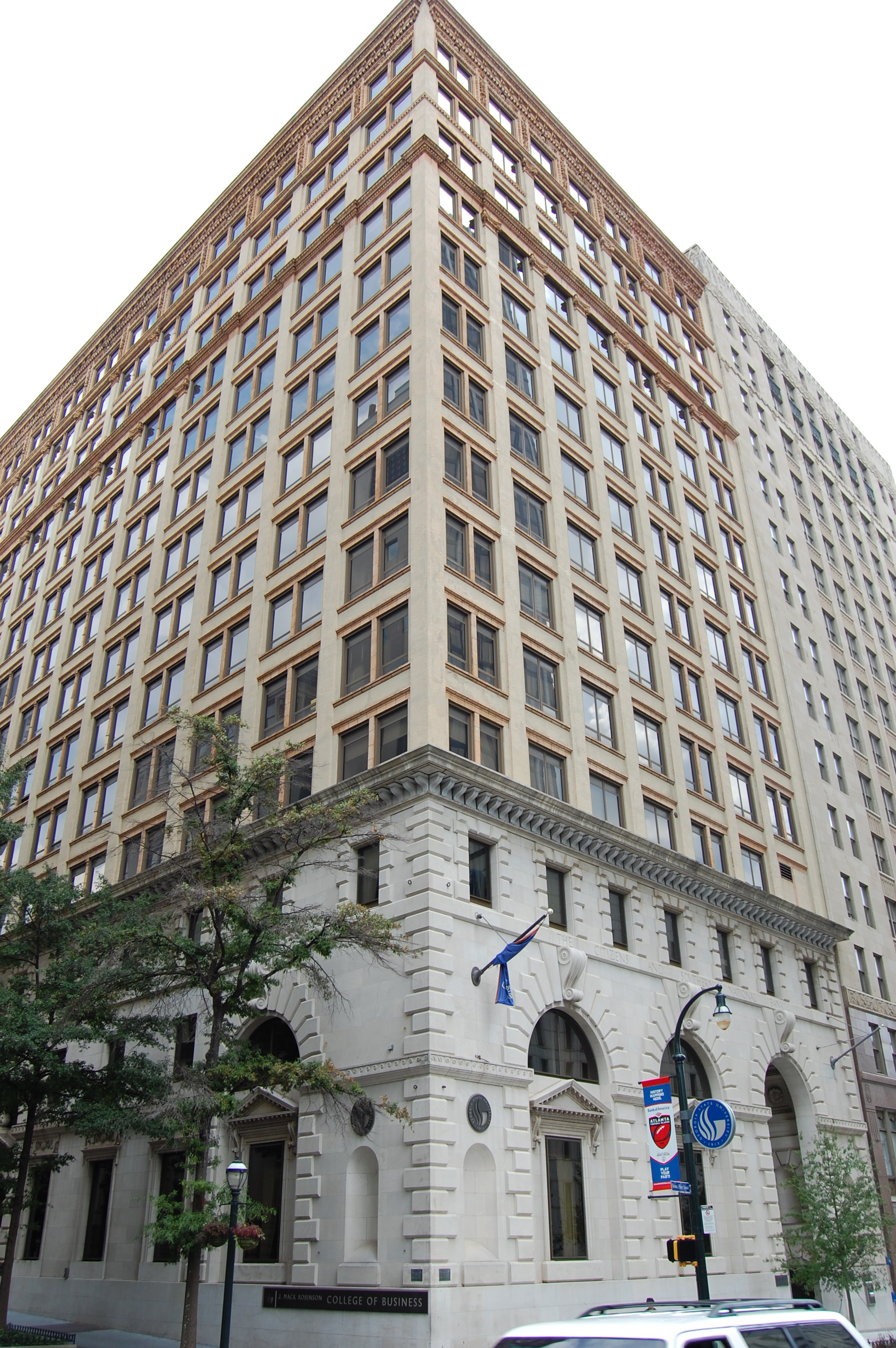 Atlanta Citizens and Southern Bank Building